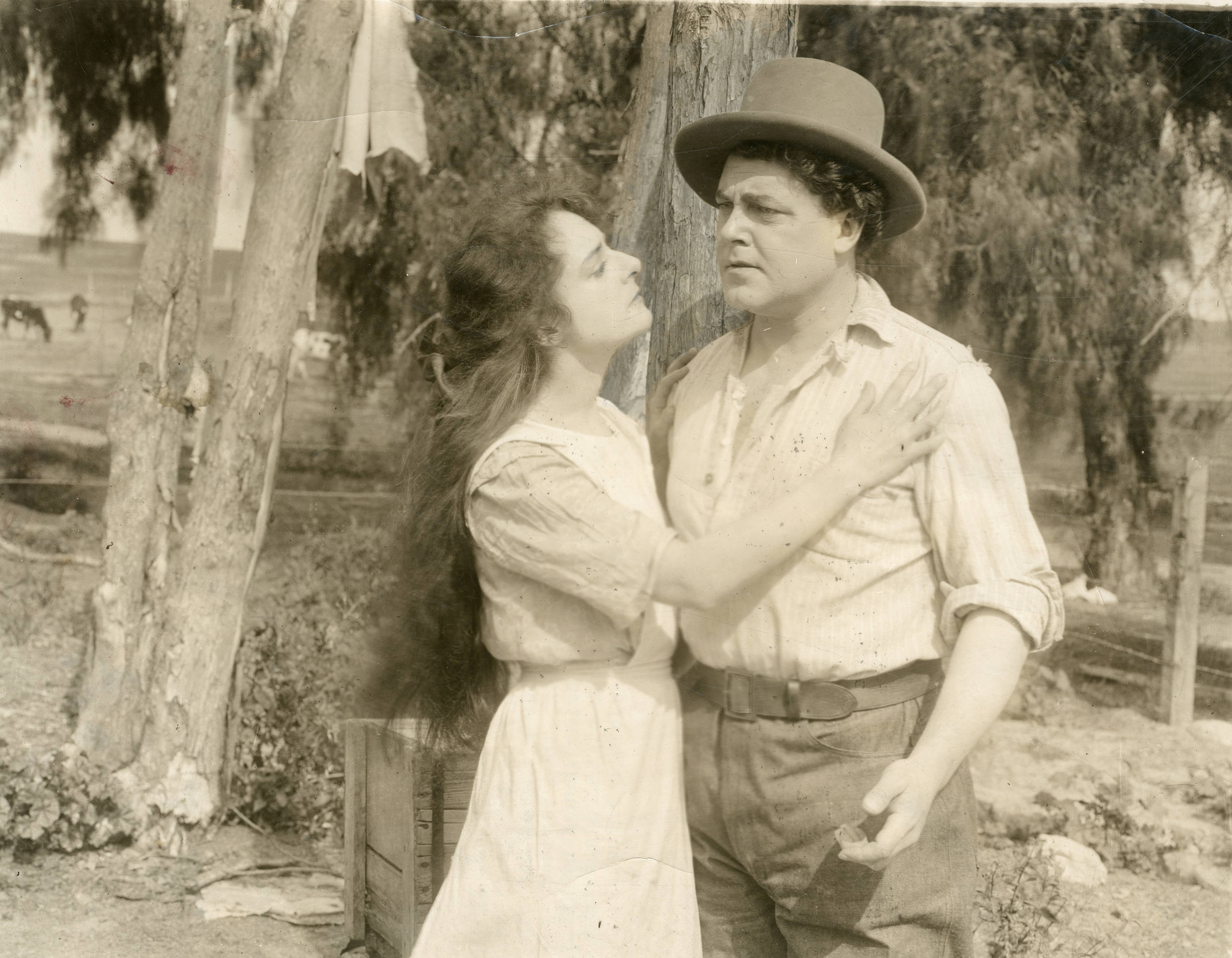 A scene from the American drama film Hoodman Blind (1923) which played at the Little Theater, Seattle. Includes William Farnum. From the back: "William Farnum in Hoodman Blind-- IN this great play, which is adapted for the screen from the great stage success of Wilson Barrett. Mr. Farnum achieved one of his big triumphs as a screen star. Mr. Farnum achieved one of his big triumphs as a screen star. The production, in a revised, re-edited and greatly improved form, is now being issued by William Fox, so that film patrons can see again one of the plays that are traditional in the life of the motion picture industry." Subjects: motion pictures, actors